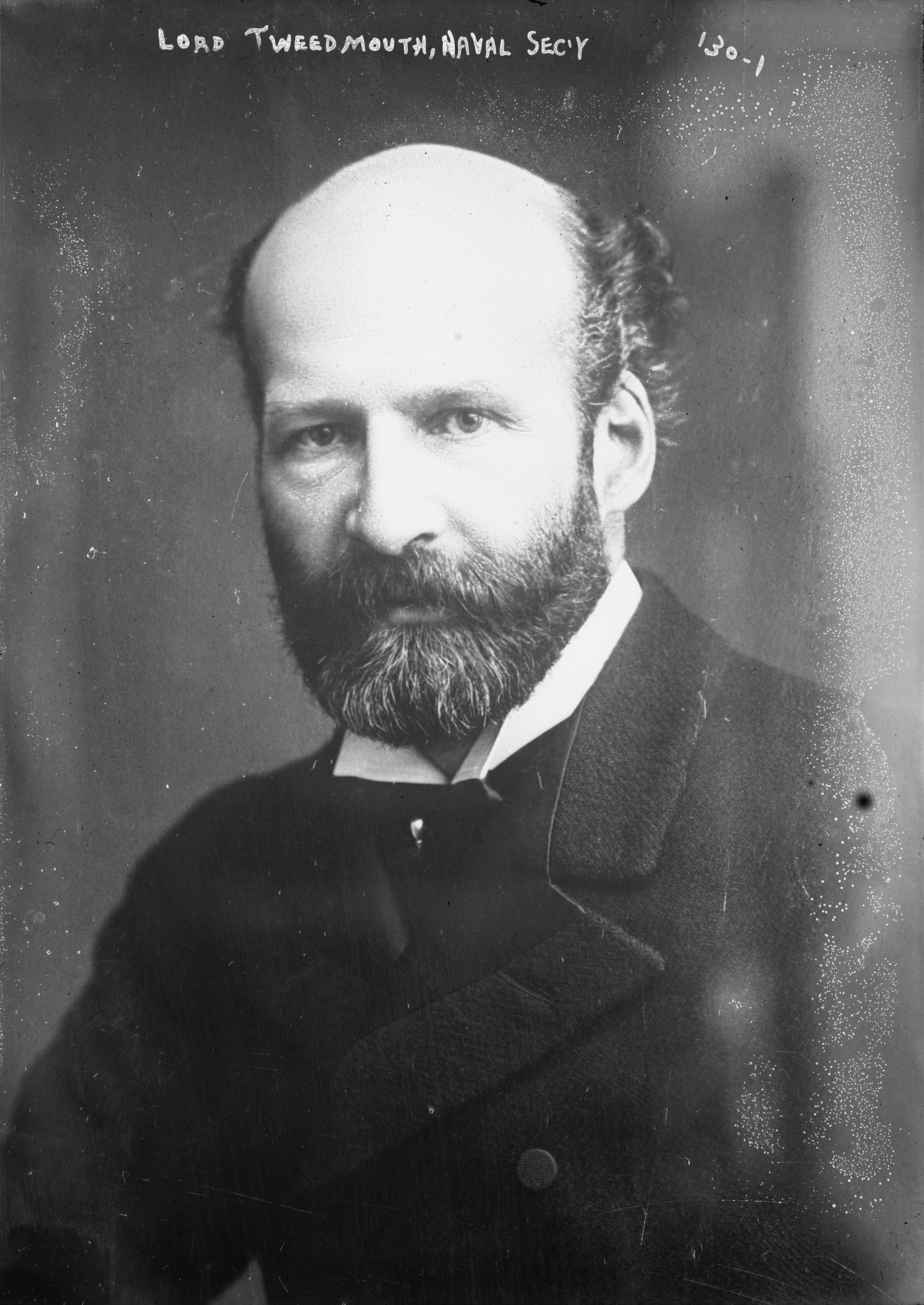 Lord Tweedmouth, Naval Secretary, portrait bust from the Library of Congress, Prints and Photographs Division, Bain Collection - Reproduction number: LC-DIG-ggbain-00770.